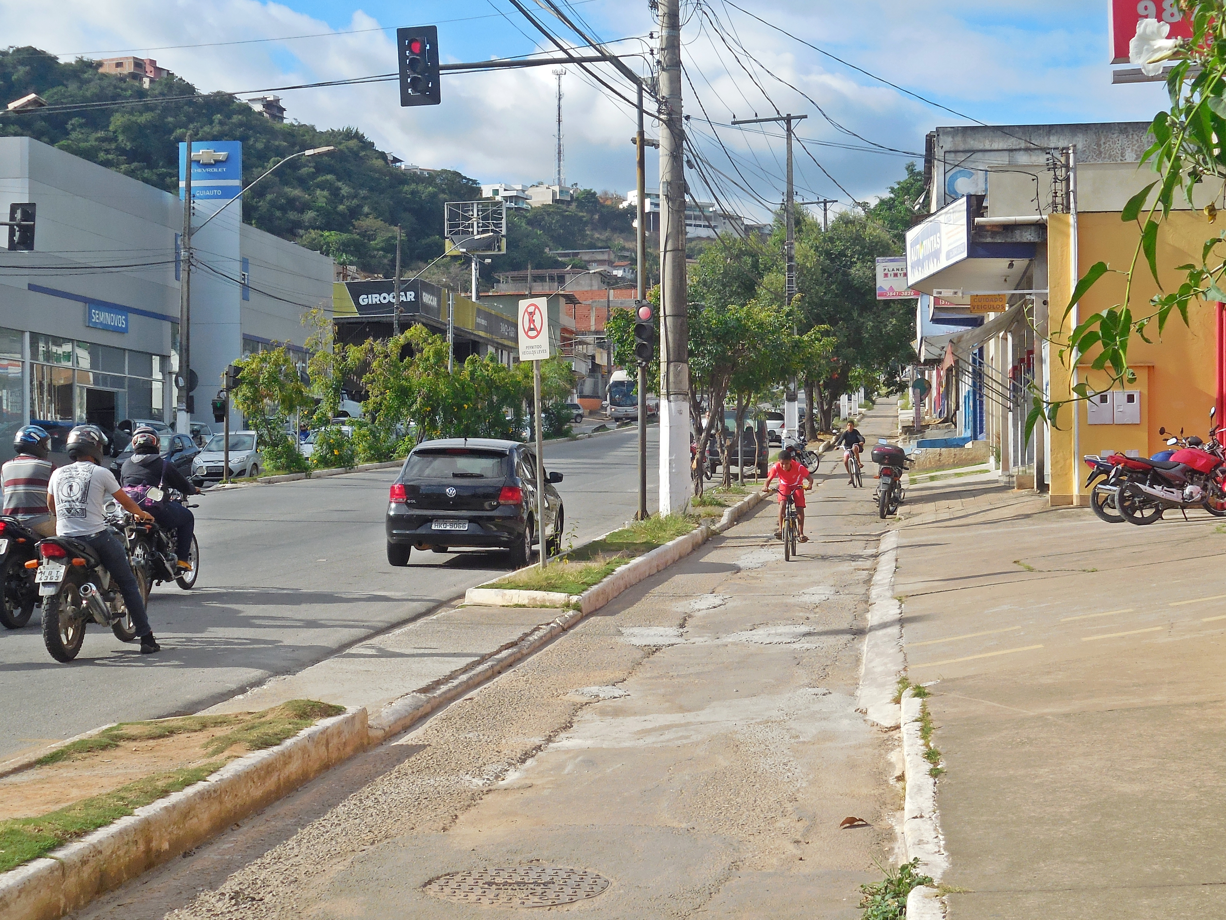 Bike parth of Presidente Tancredo de Almeida Neves Avenue in the Bom Jesus neighborhood, in Coronel Fabriciano, Minas Gerais, Brazil.